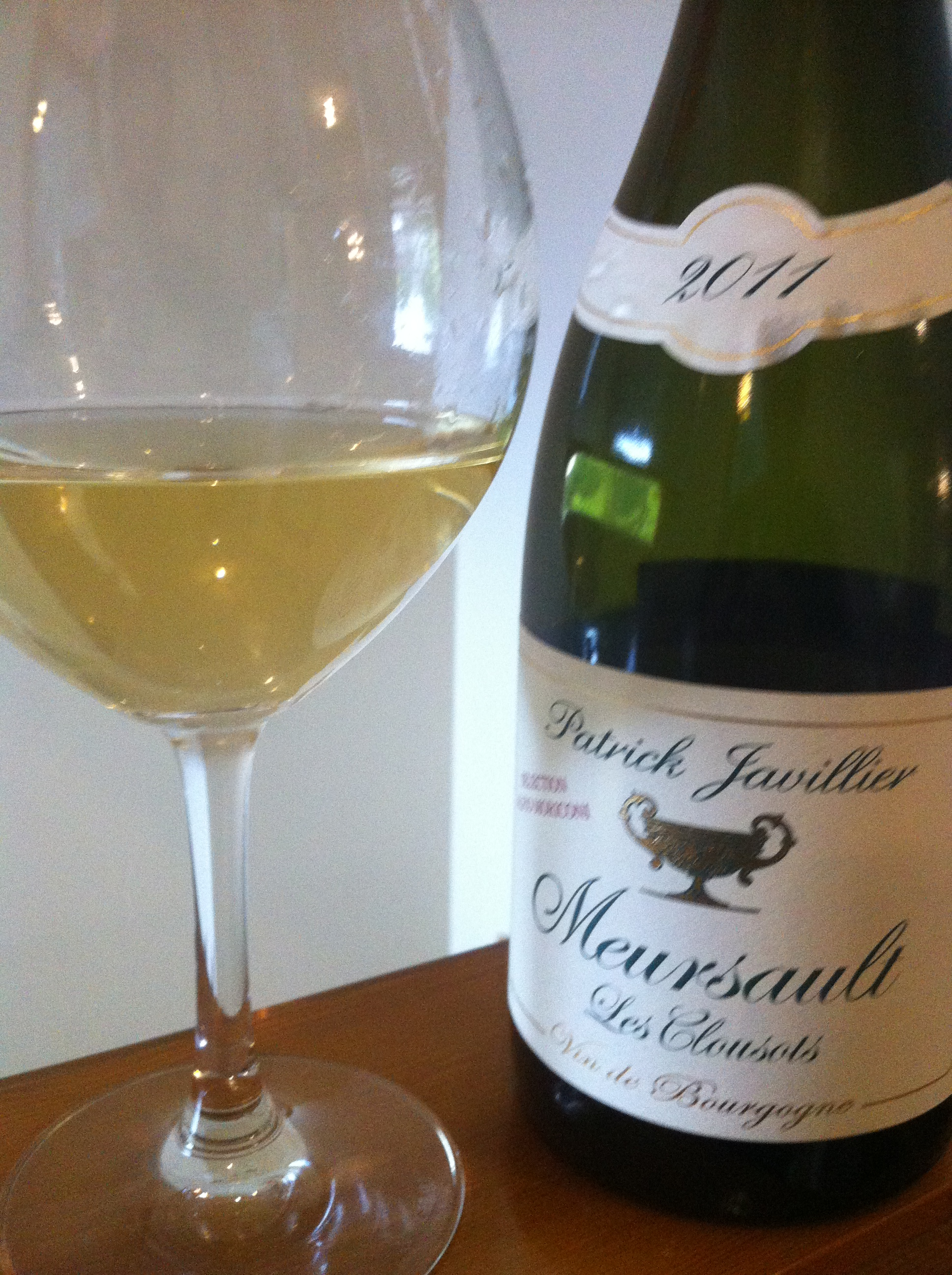 French Chardonnay from the Burgundy wine region of Meursault